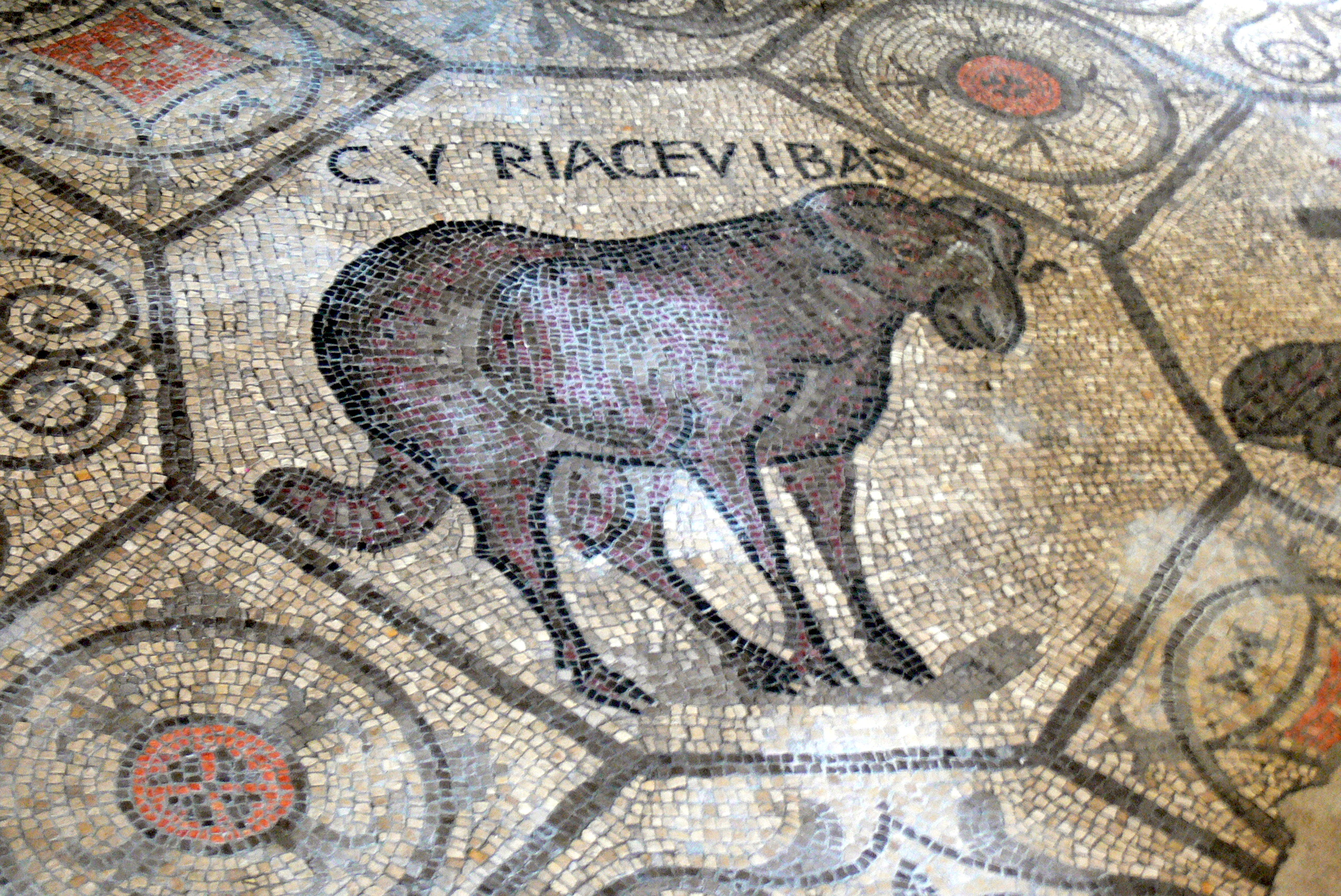 Paleochristian 4th century mosaic of a ram made from tesserae. At Basilica Patriarcale in Aquileia (Italy) — an excavated Paleochristian mosaic.